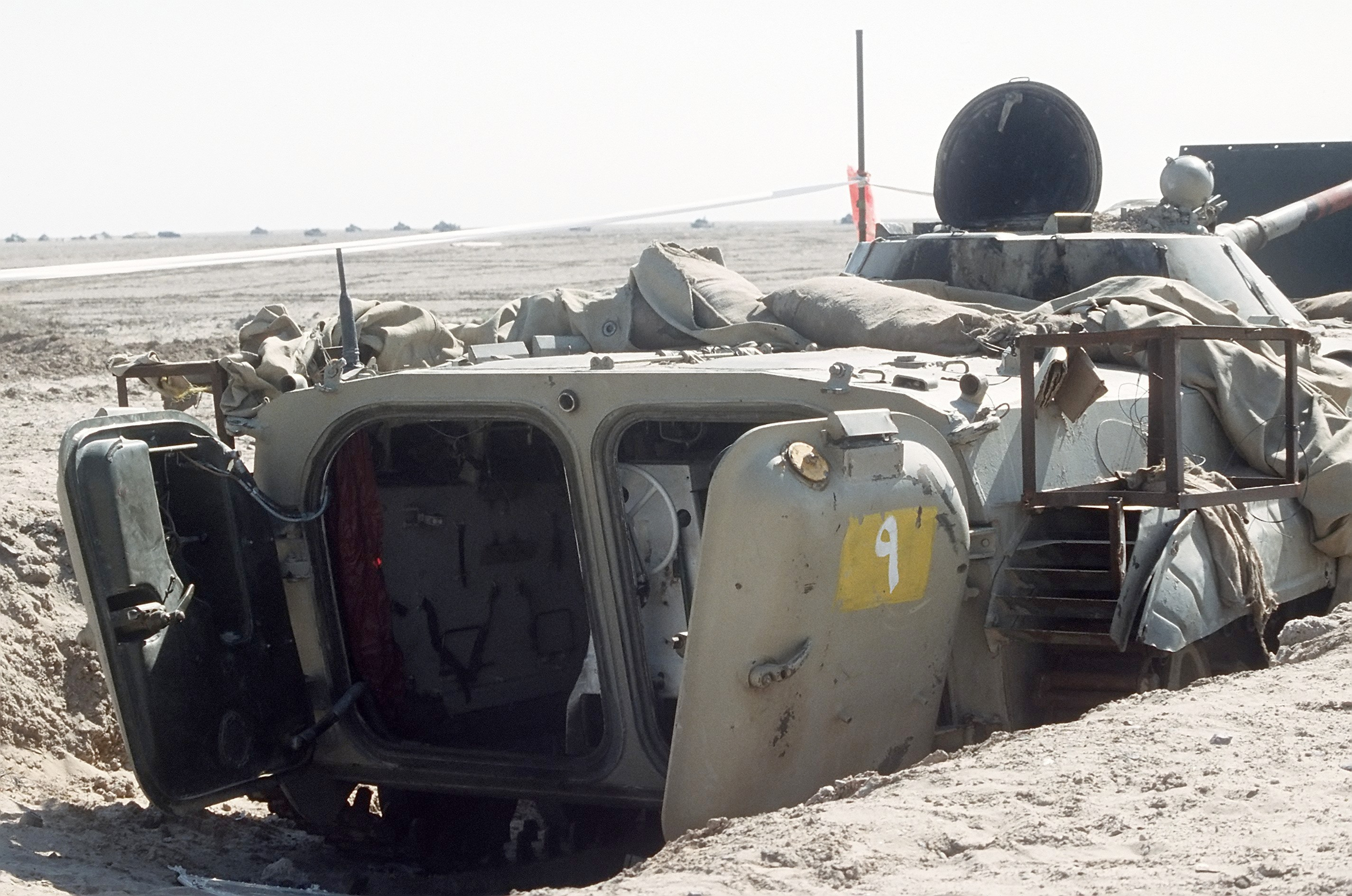 Iraqi Republican Guard BMP-1 damaged during Operation Desert Storm.